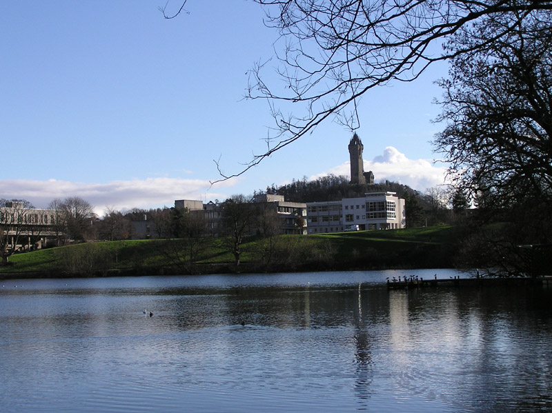 Stirling (Scotland) - Buildings at University of Stirling, the Airthrey Loch and the Wallace Monument. view from the west side of Airthrey Loch, facing roughly south.